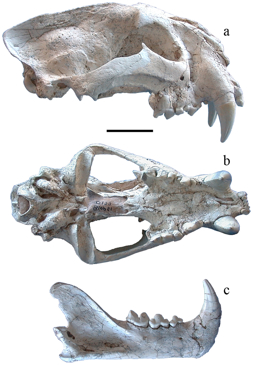 Holotype of Panthera zdanskyi sp. nov. BIOPSI 00177 (Babiarz Institute of Paleontological Studies) from the earliest Pleistocene of Longdan, Dongxiang County, Gansu Province, China in A, lateral; and B, ventral views; C, lateral view of mandible. The skull measures as follows (in mm): greatest skull length, 264.0; condylobasal length, 236.3; nasal length, 81.6; mandible length, 167.8; and mandible posterior height, 85.4. Dental measurements are as follows (in mm): C1 height, 56.0; C1 alveolar length, 24.0; C1 alveolar width, 16.7; P4 length, 31.7; P4 width, 17.0; P3 length, 22.0; P3 width, 10.0; P2 length, 5.5; C1 height, 40.5; C1; alveolar length, 21.9; C1 alveolar width, 13.0; M1 length, 24.6; M1 width, 10.7; P4 length, 21.7; P4 width; P3 length, 15.4; P3 width, 9.7.